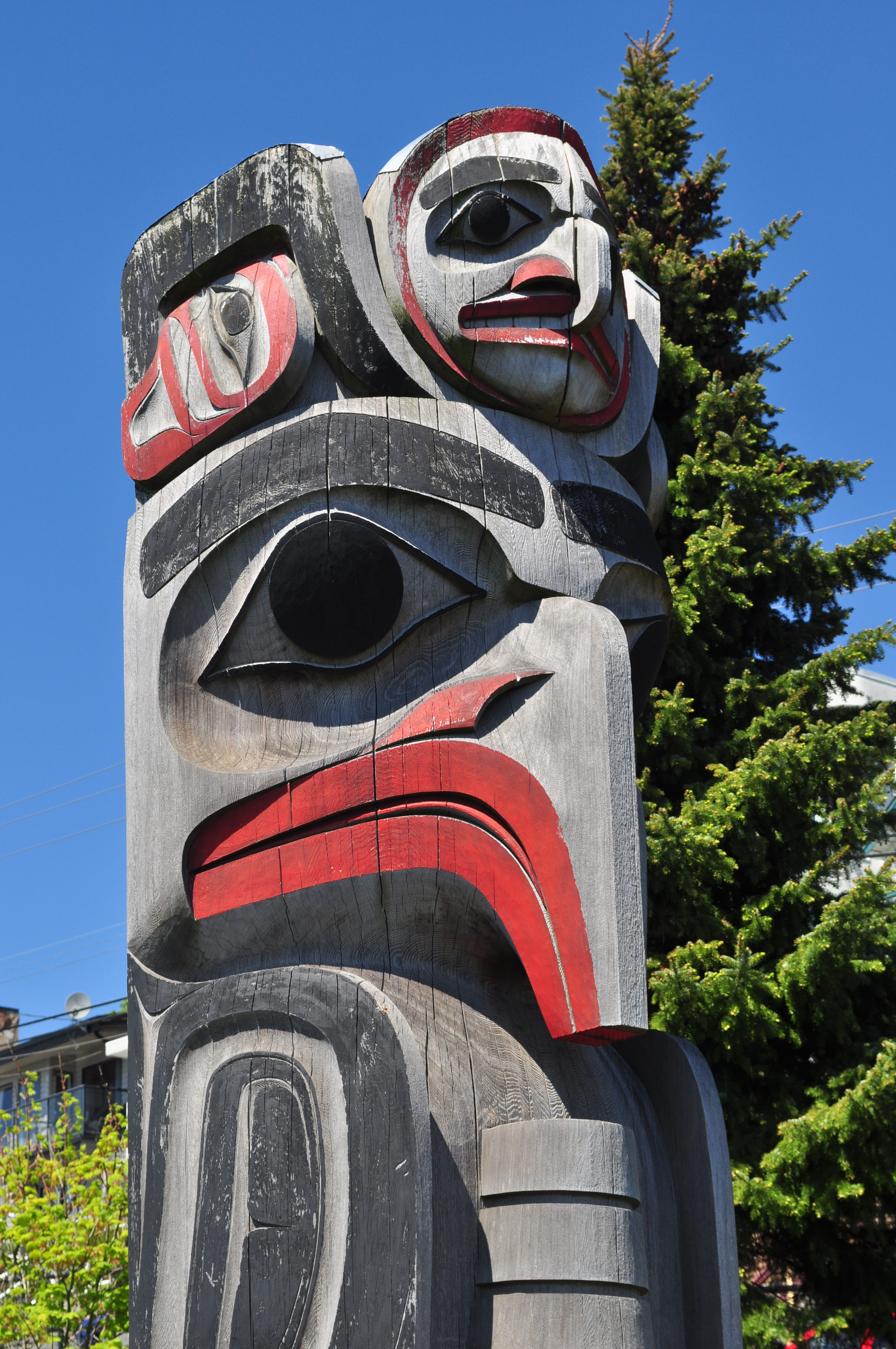 "Gyaana" Haida totem pole, Totem Plaza at Lions Lookout Park, White Rock, British Columbia, Canada. Carved from Western Red Cedar. The design is by Robert Davidson. There is no clear delineation of posted credits for carving this and a nearby Coast Salish housepoet, but the list of carvers includes Robert Davidson, Leonard Wells, Ben Davidson, Leslie Wells, Reg Davidson, and [illegible] Livingston.